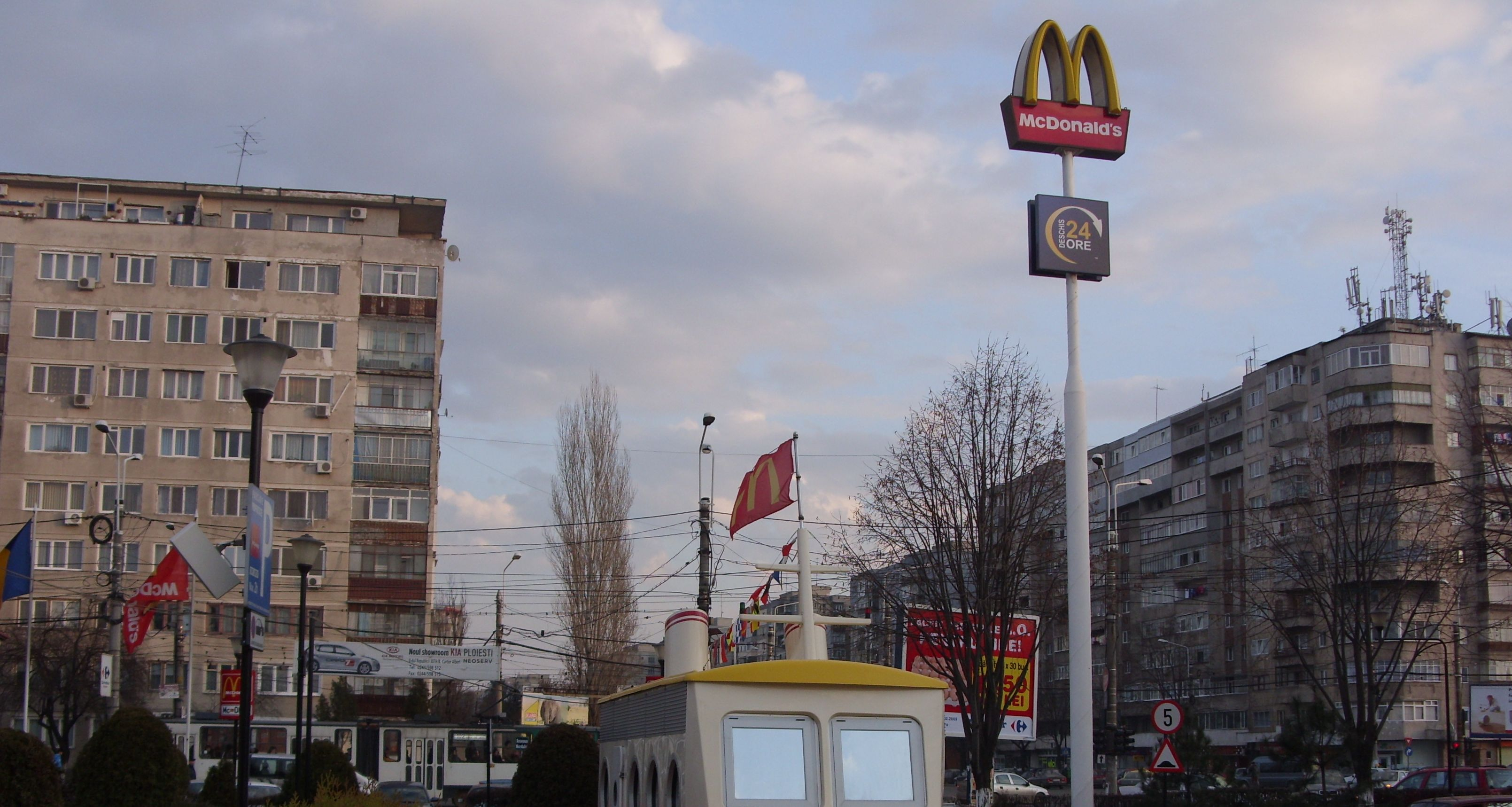 McDonalds, Ploiesti, Romania